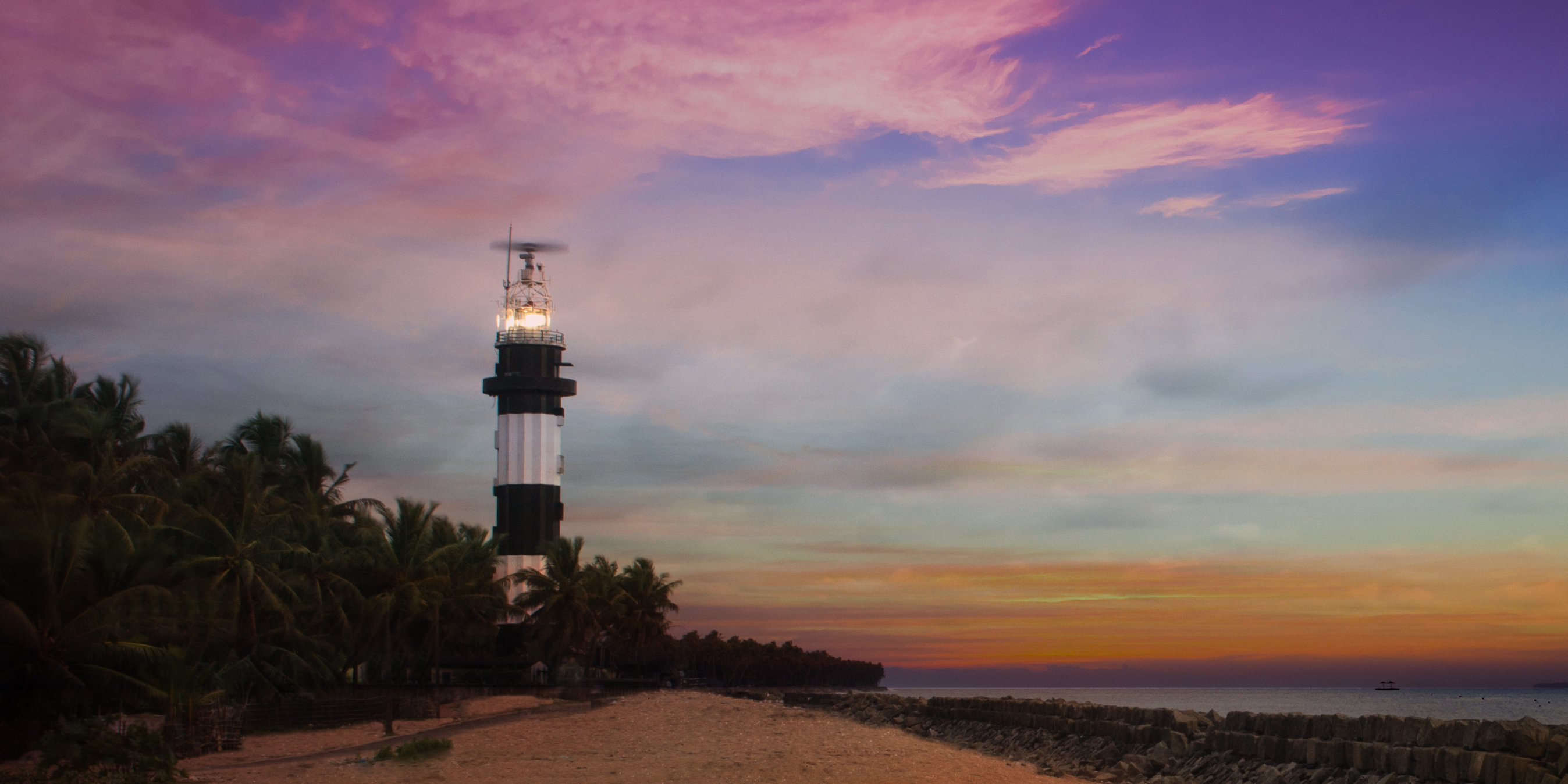 A lighthouse at Ponnani, photographed just as the lights were turned on.